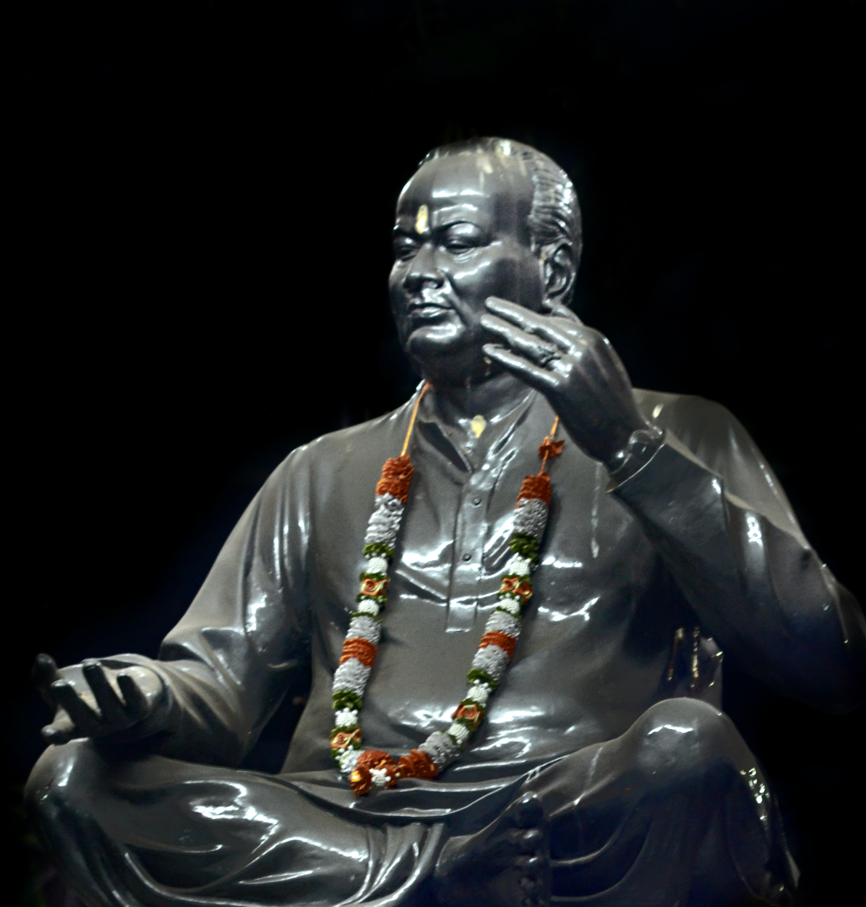 Sangita Sudhakara Balakrushna Dash, Guru of Odissi classical music.